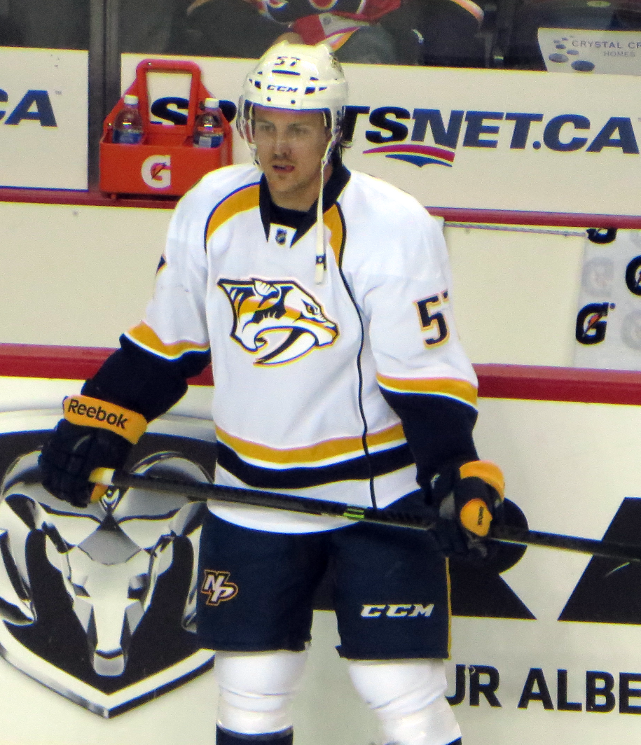 Nashville Predators forward Gabriel Bourque prior to a National Hockey League game against the Calgary Flames.